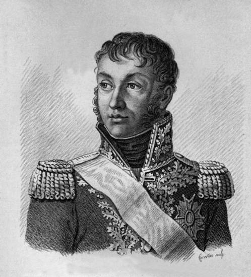 French general Jean Andoche Junot